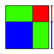 Illustration of binomial relation proved with geometry